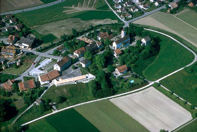 Aerial Photography Städtlihügel Pfyn (CH) look from SW, Place of the late-roman castle Ad fines.